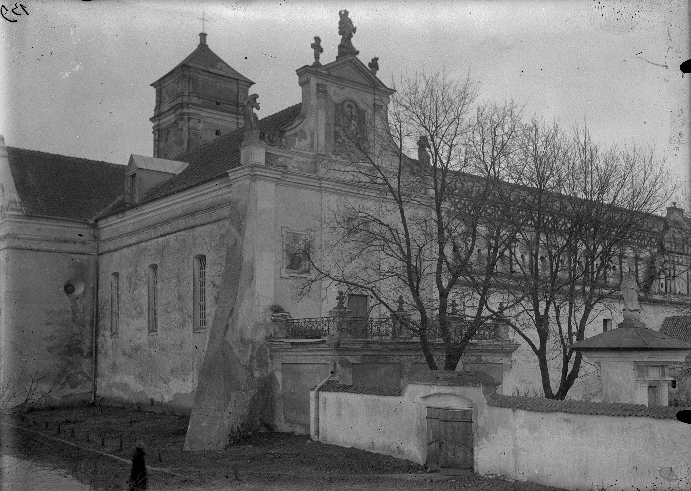 St. Michael`s chirch of the Bernardian monastery.